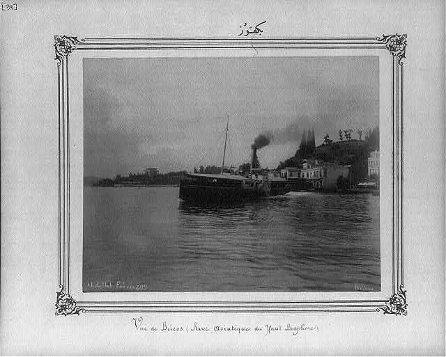 Beykoz, İstanbul between 1880 and 1893